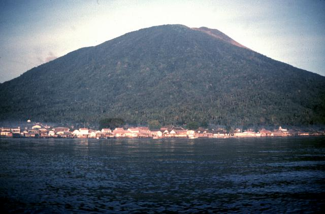 Gamalama (Peak of Ternate) is a stratovolcano that rises on Ternate Island.